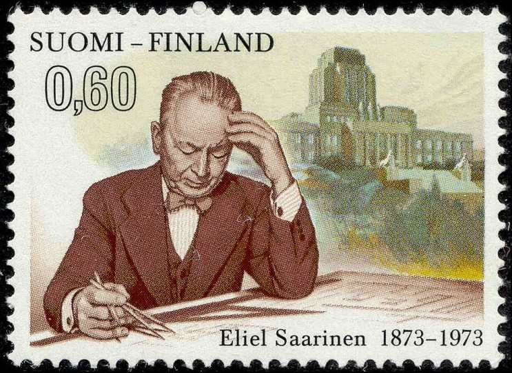 Postage stamp depicting Finnish architect Eliel Saarinen.